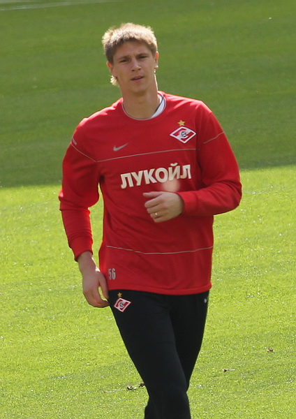 Aleksandr Belenov